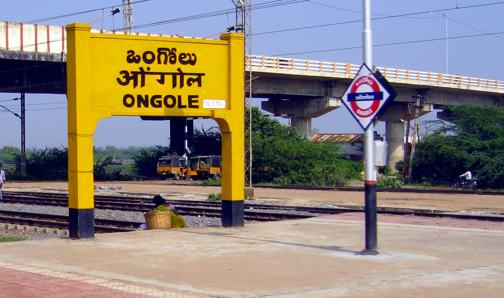 Ongole Railway Station